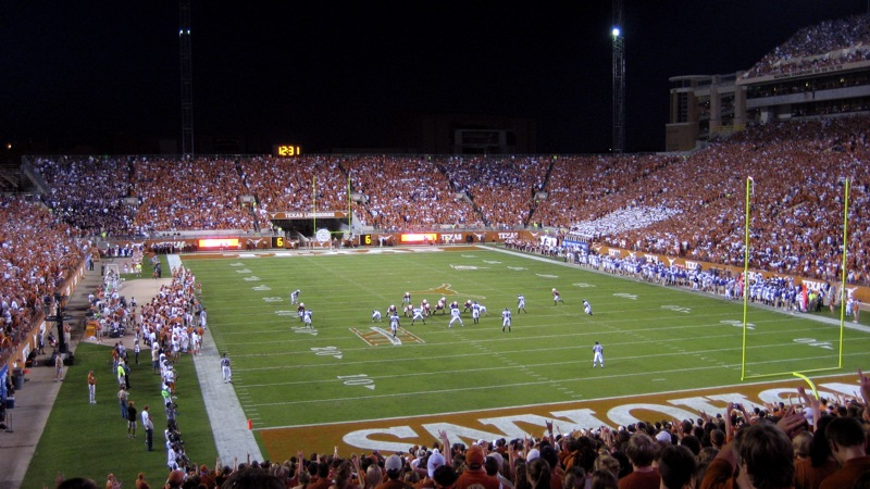 TCU at UT 2007 - 1st UT scoring drive of second half. View from the south end zone.